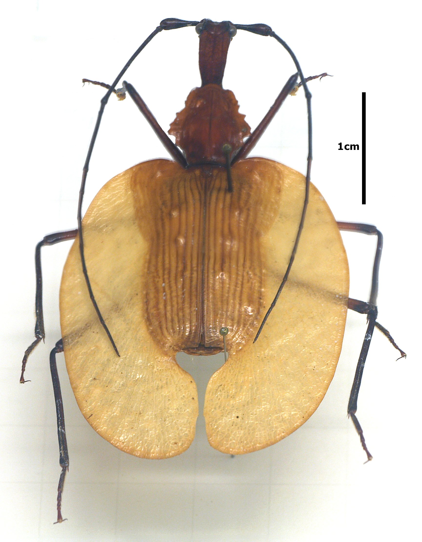 Mormolyce phyllodes from South Asia. Mounted specimen.